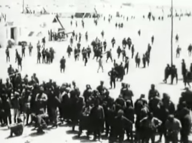 Prisoner-of-war camp in Nargen island